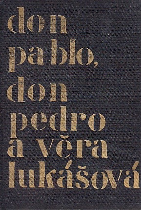 Don Pablo, Don Pedro a Věra Lukášová, by Božena Benešová